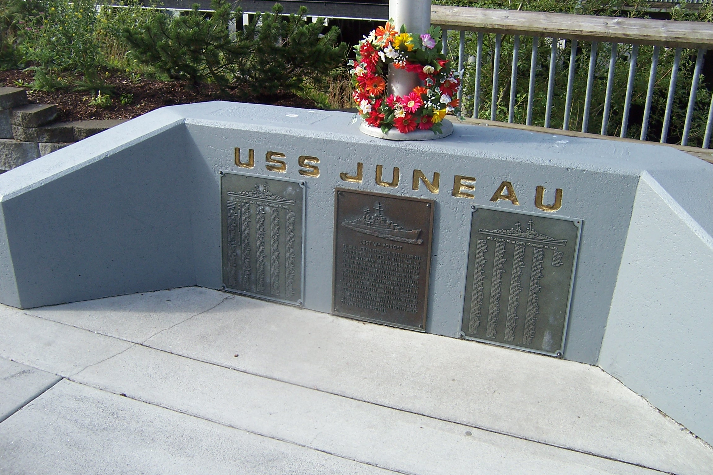 Memorial to the USS Juneau, along the Marine Way docks in Juneau, Alaska